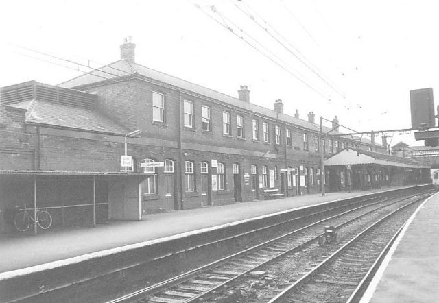 Guide Bridge station - main buildings. The large run of buildings on the main Manchester-bound platform at Guide Bridge reflected the amount of goods traffic which once passed through or near to the station. By 1977, they were mainly derelict and subsequently this side of the station was completely closed. See a later photo[1] for this view around a decade later.